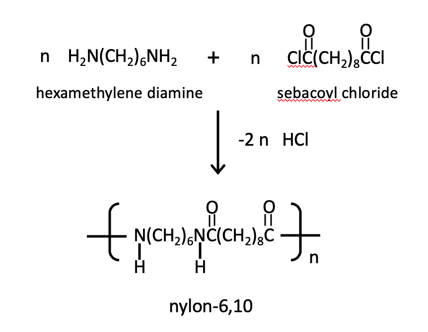 Acid chloride preparative route to nylon-6,10